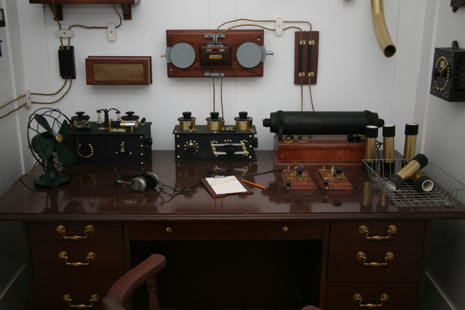 A replica of the radio room on the ocean liner RMS Titanic which hit an iceberg and sank on its maiden voyage 15 April 1912. An SOS distress signal sent from this room summoned a nearby ship, the RMS Carpathia, which saved 705 of the survivors. Two men employed by the Marconi Company worked in this small windowless room near the bridge. Their main job was to receive and send messages by radio waves using Morse code. Little did they know they would soon be tapping out one of the first SOS signals from a ship in distress. The radio apparatus during the wireless telegraphy or "spark" era before 1920 was primitive; a spark-gap transmitter which transmitted information by the operator tapping on a telegraph key to spell out messages in Morse code, and a weak unamplified crystal radio receiver.